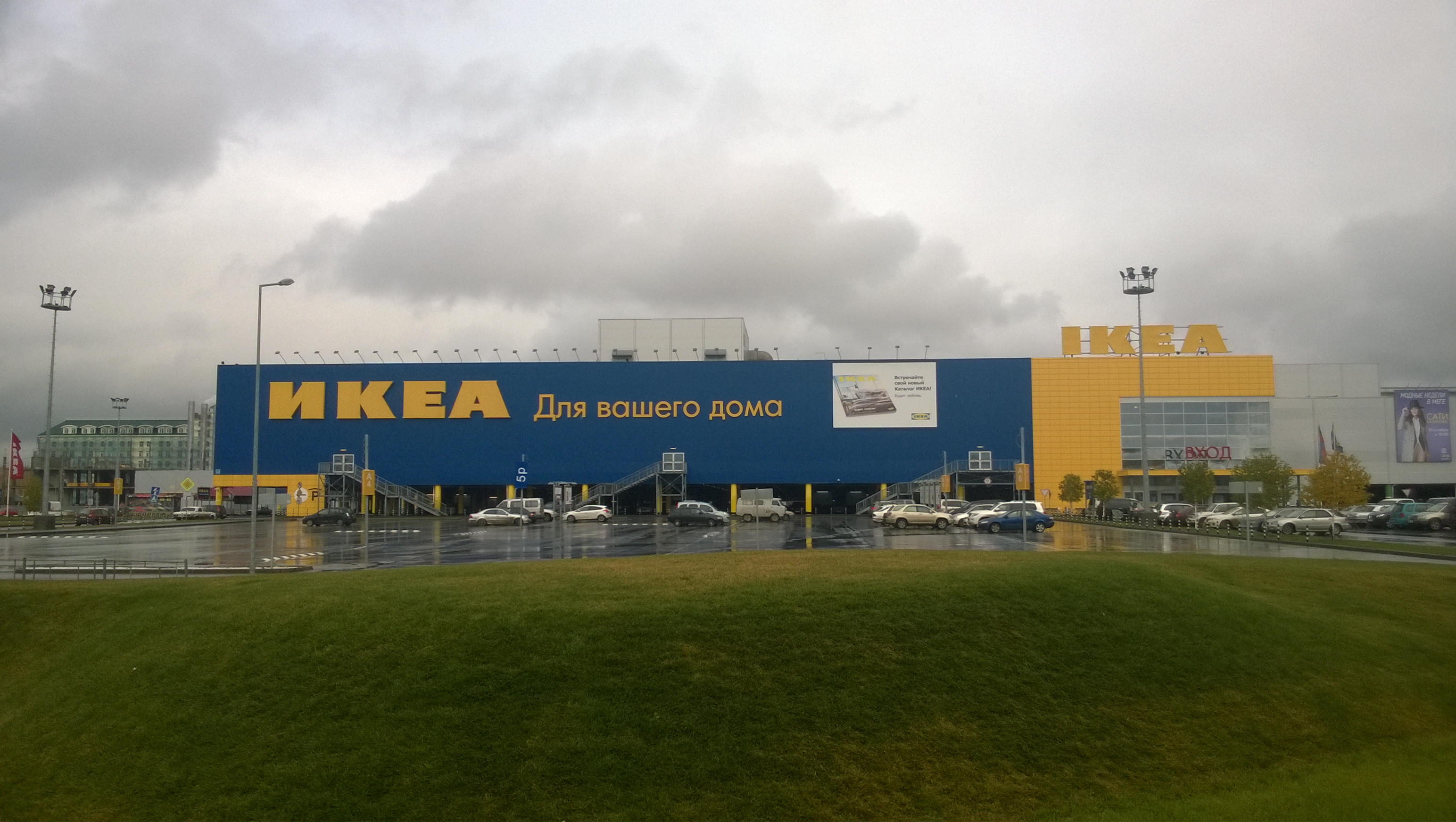 IKEA in Novosibirsk.